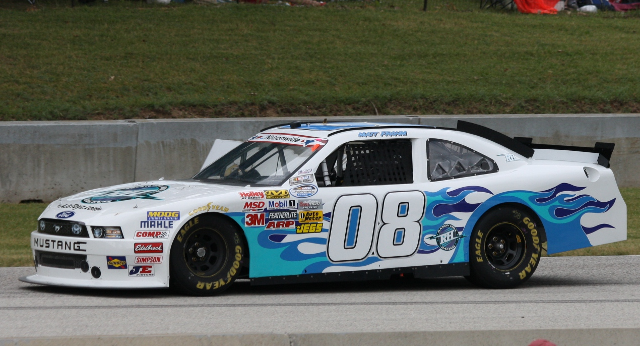 Matt Frahm NASCAR Nationwide Series car at Road America at the 2012 Sargento 200.